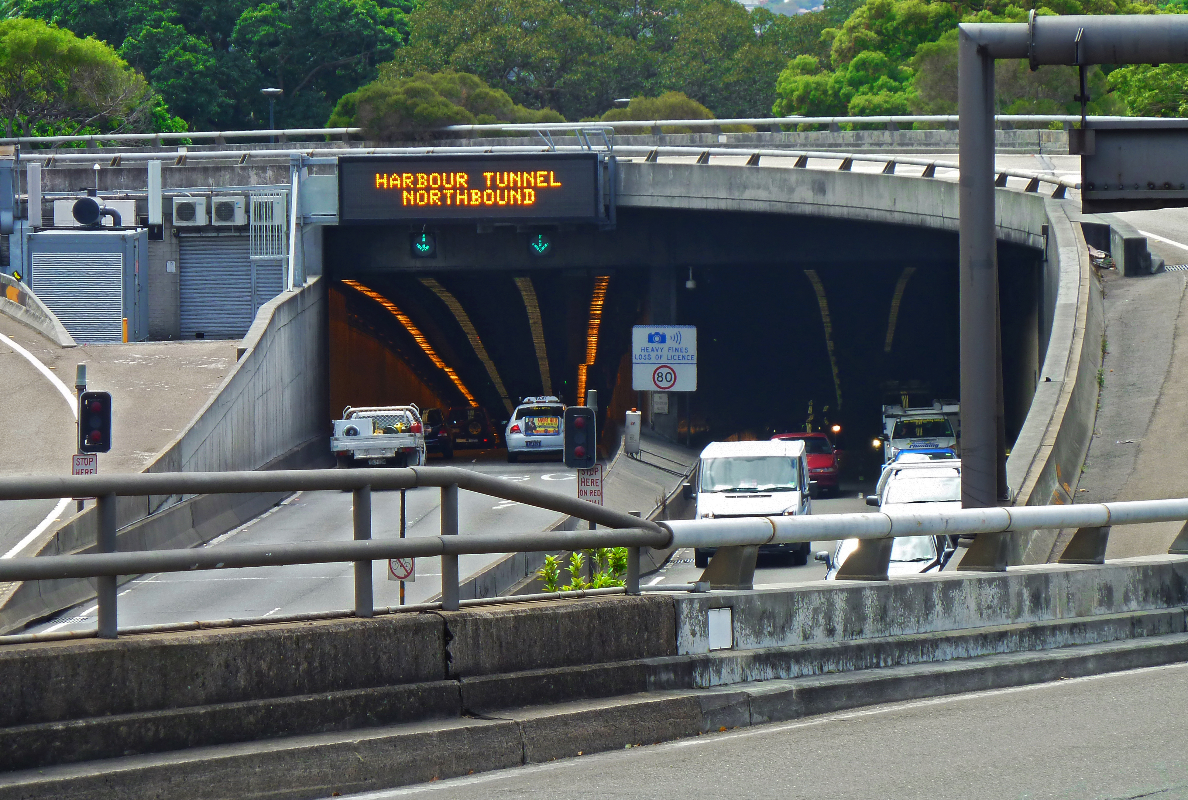 Sydney Harbour Tunnel, from Conservatorium Road, Sydney, New South Wales, Australia.